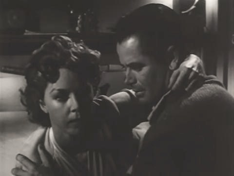 Gloria Grahame & Glenn Ford in Human Desire - trailer (cropped screenshot)